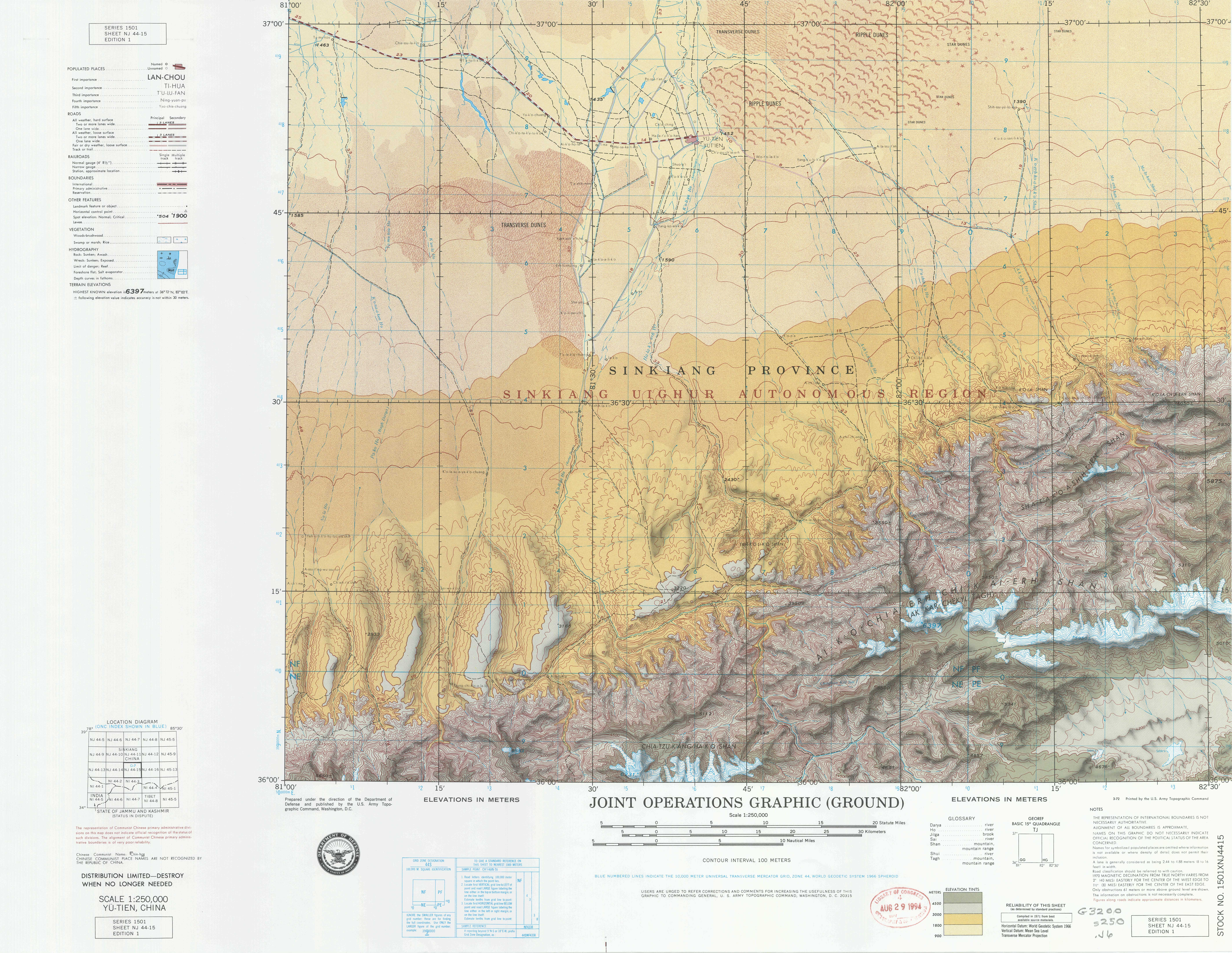 NJ-44-15 Yu-Tien China